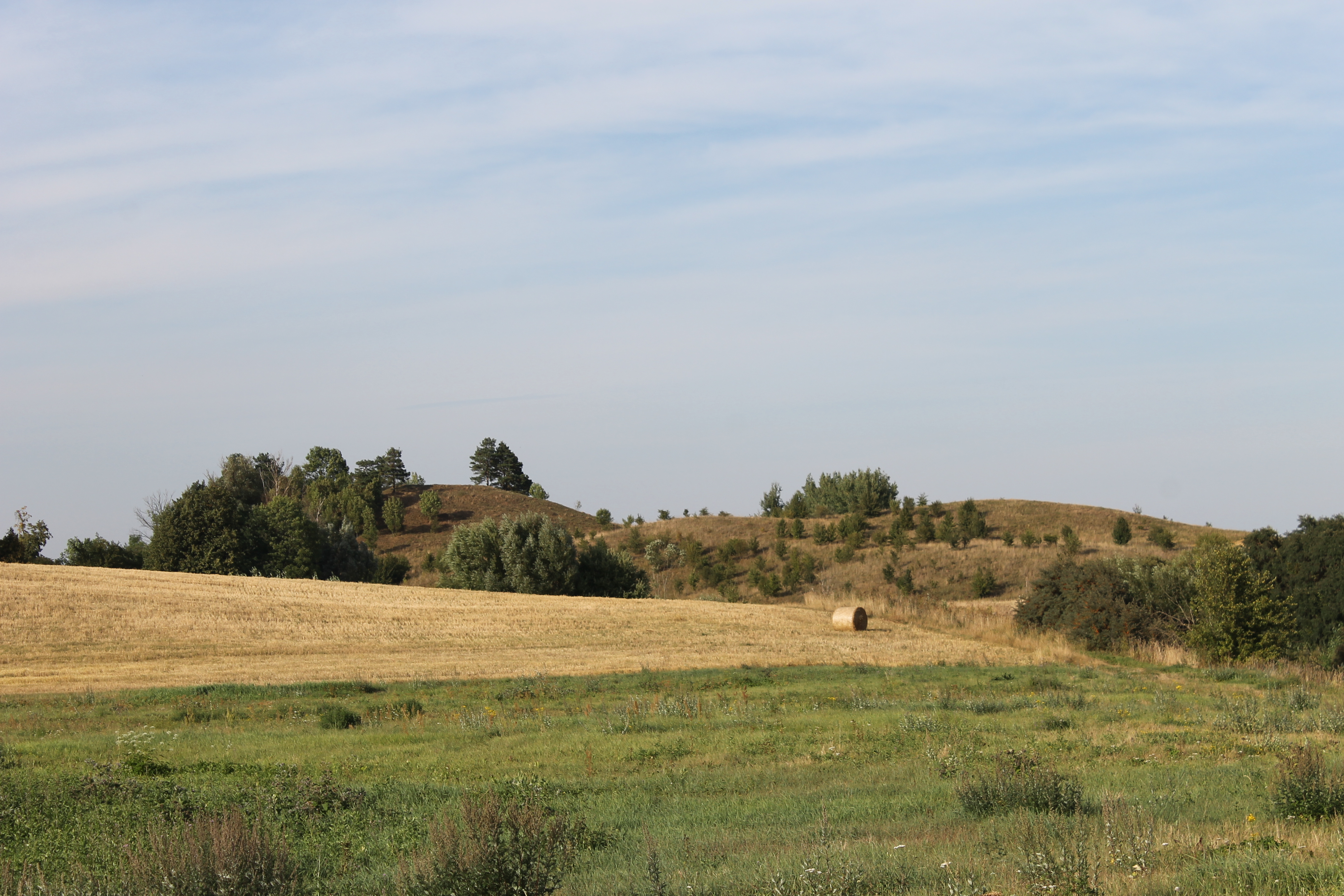 Gumbeliai Hillfort, Lazdijai district, Lithuania